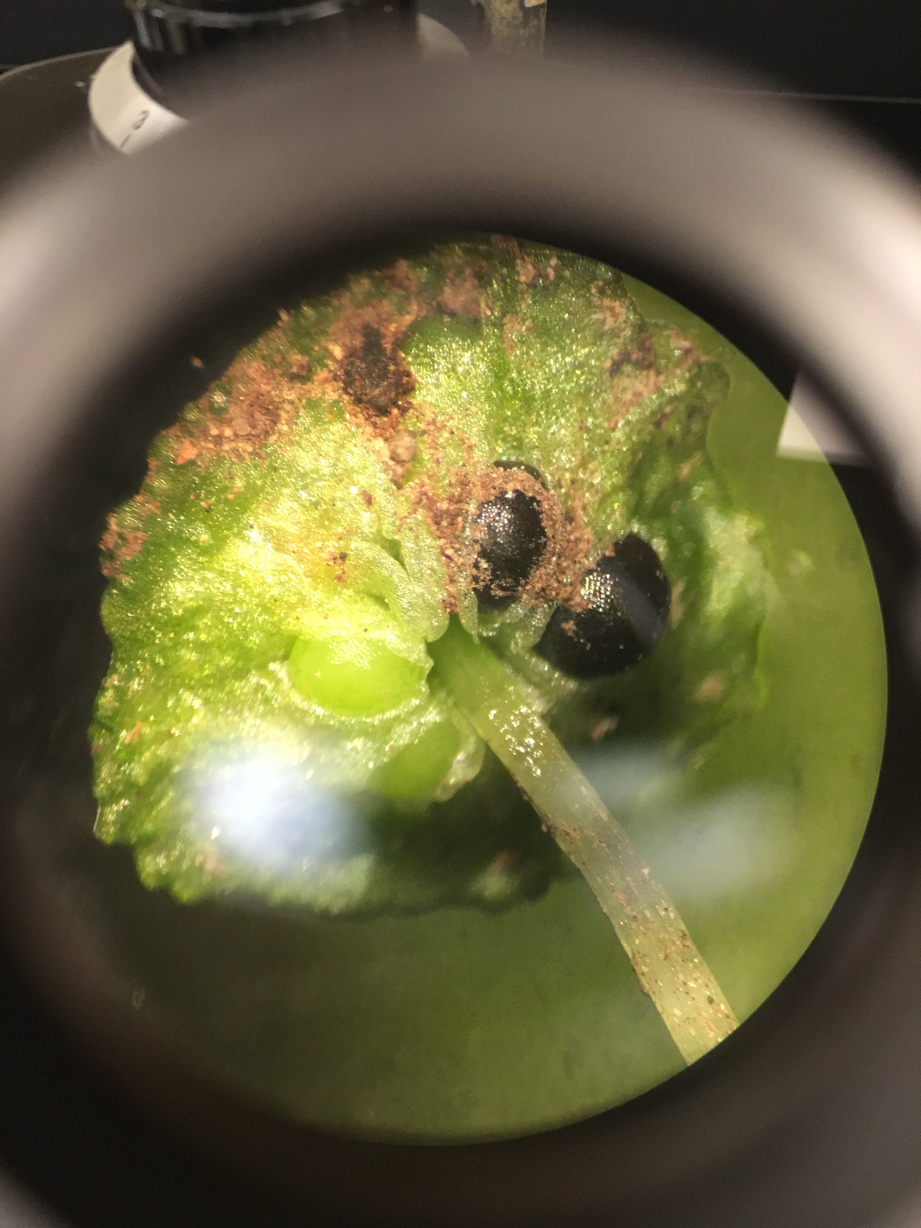 Image of Cryptomitrium tenerum sporophyte capsules taken through a dissecting microscope at 25x